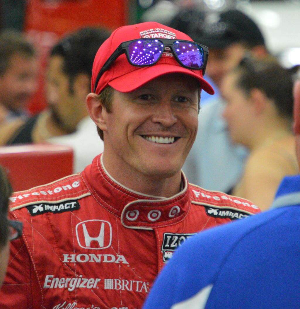 IndyCar driver Scott Dixon greets fans in the paddock area of the 2013 Grand Prix of Baltimore.